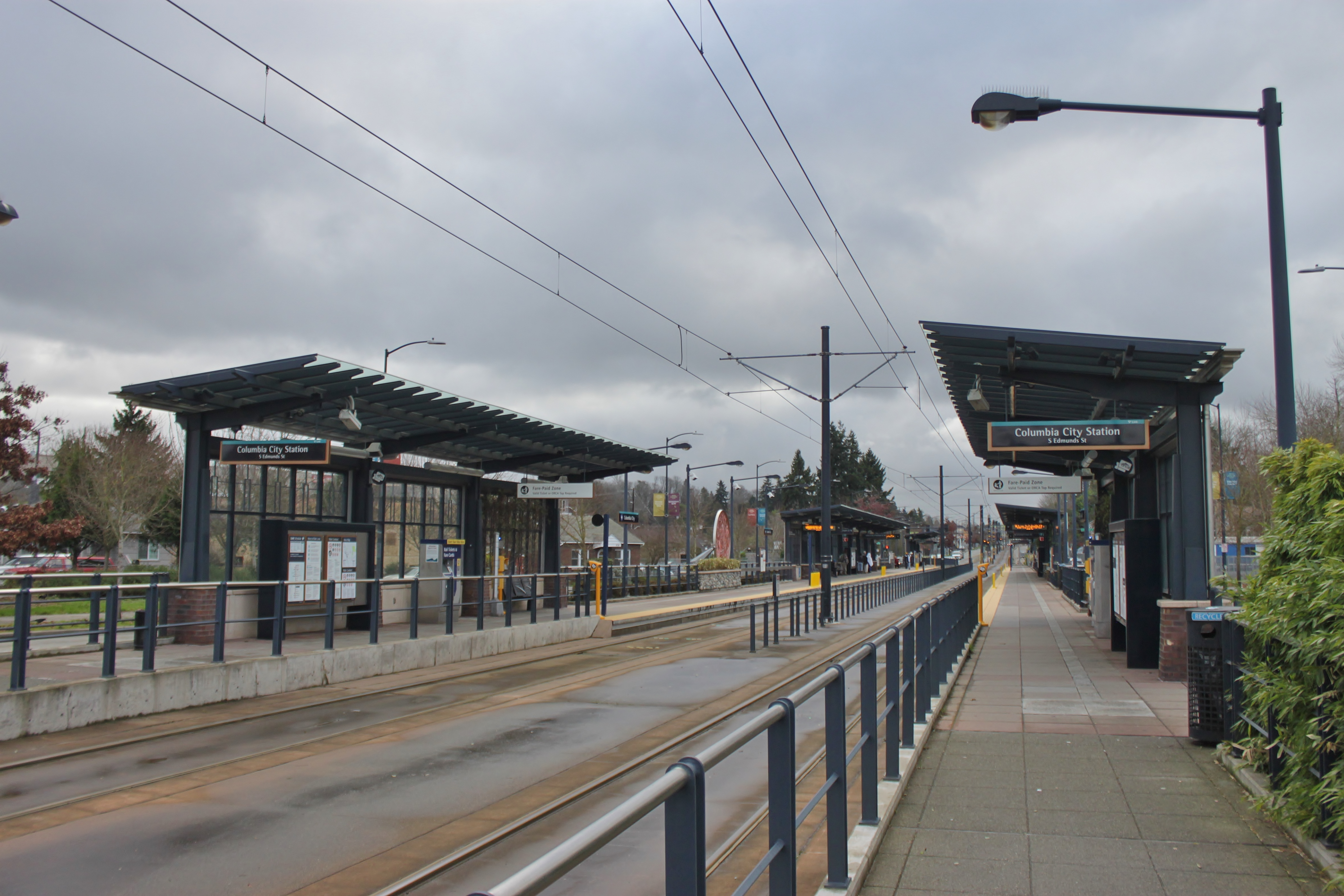 The southbound platform at Columbia City station, looking south from the Alaska Street entrance.